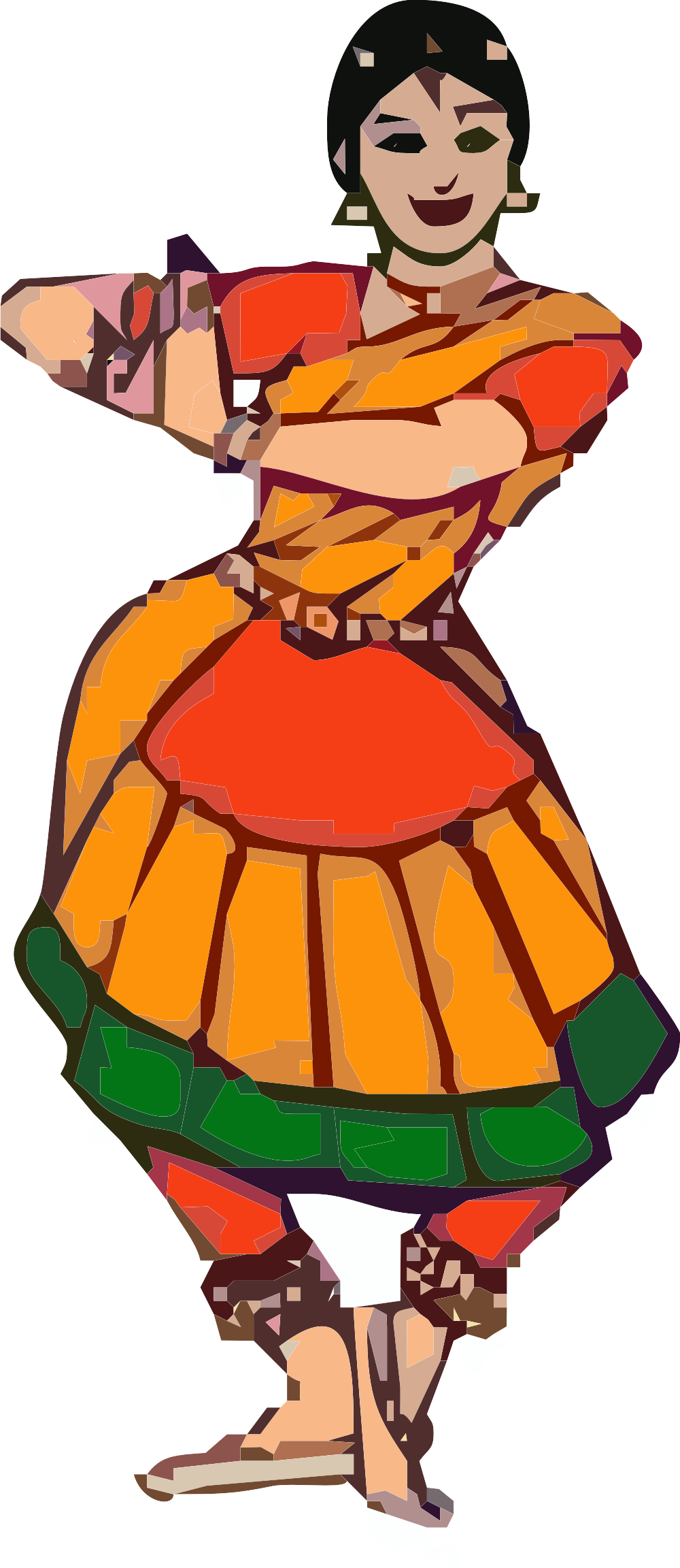 This is a logo showing a bhartanatyam dancer doing a pose.